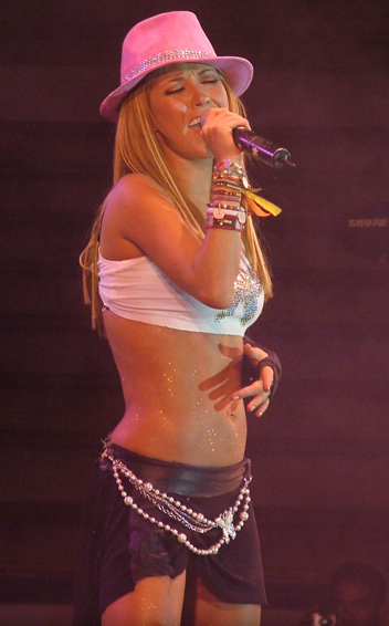 Anahí Puente performing RBD concert in the plaza monumental at the Tijuana Beaches 2009.